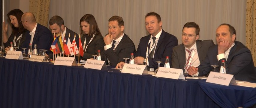 Attorney Dr. Gintautas Šulija, LL.M. (Cantab), invited speaker (Lithuanian aviation law). Aviation Forum 2016 in Vilnius